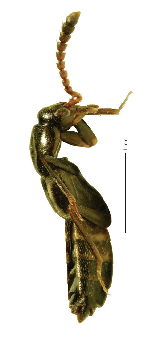 Lateral view of Pella glooscapi.